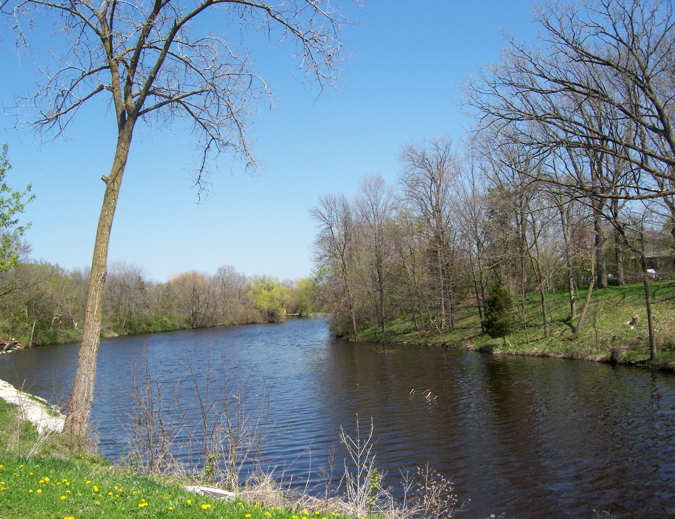 Looking east at the Mullet River in downtown Glenbeulah, Wisconsin, USA.